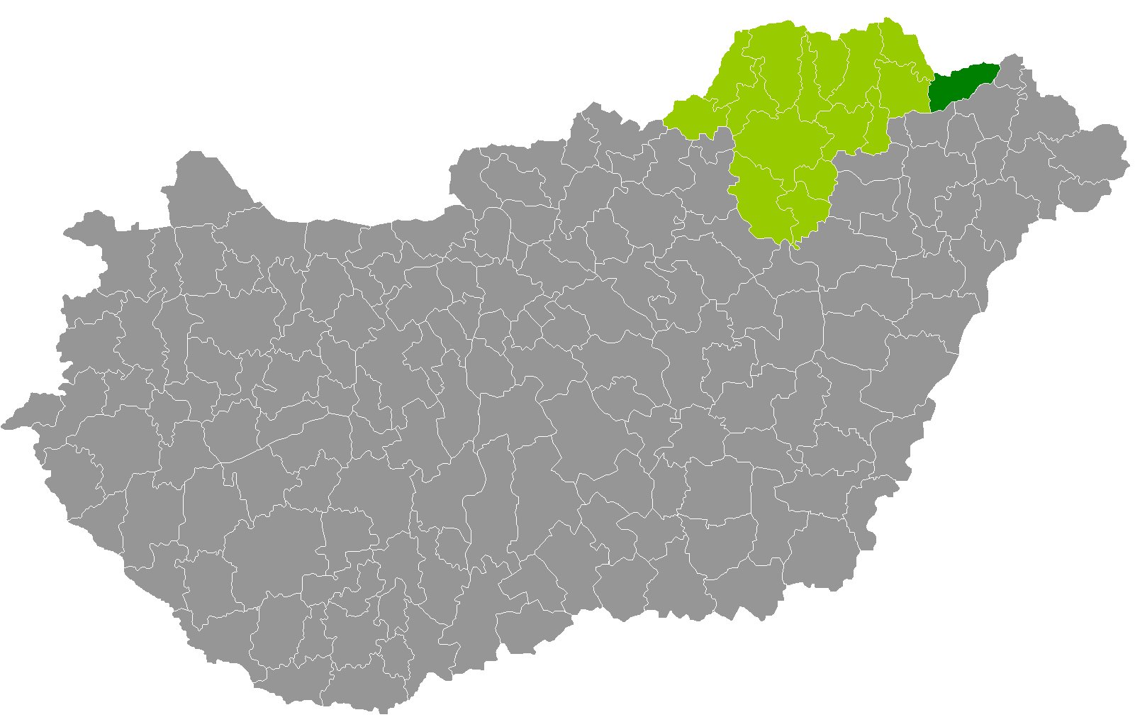 Location of Cigánd District, Borsod-Abauj-Zemplén, Hungary